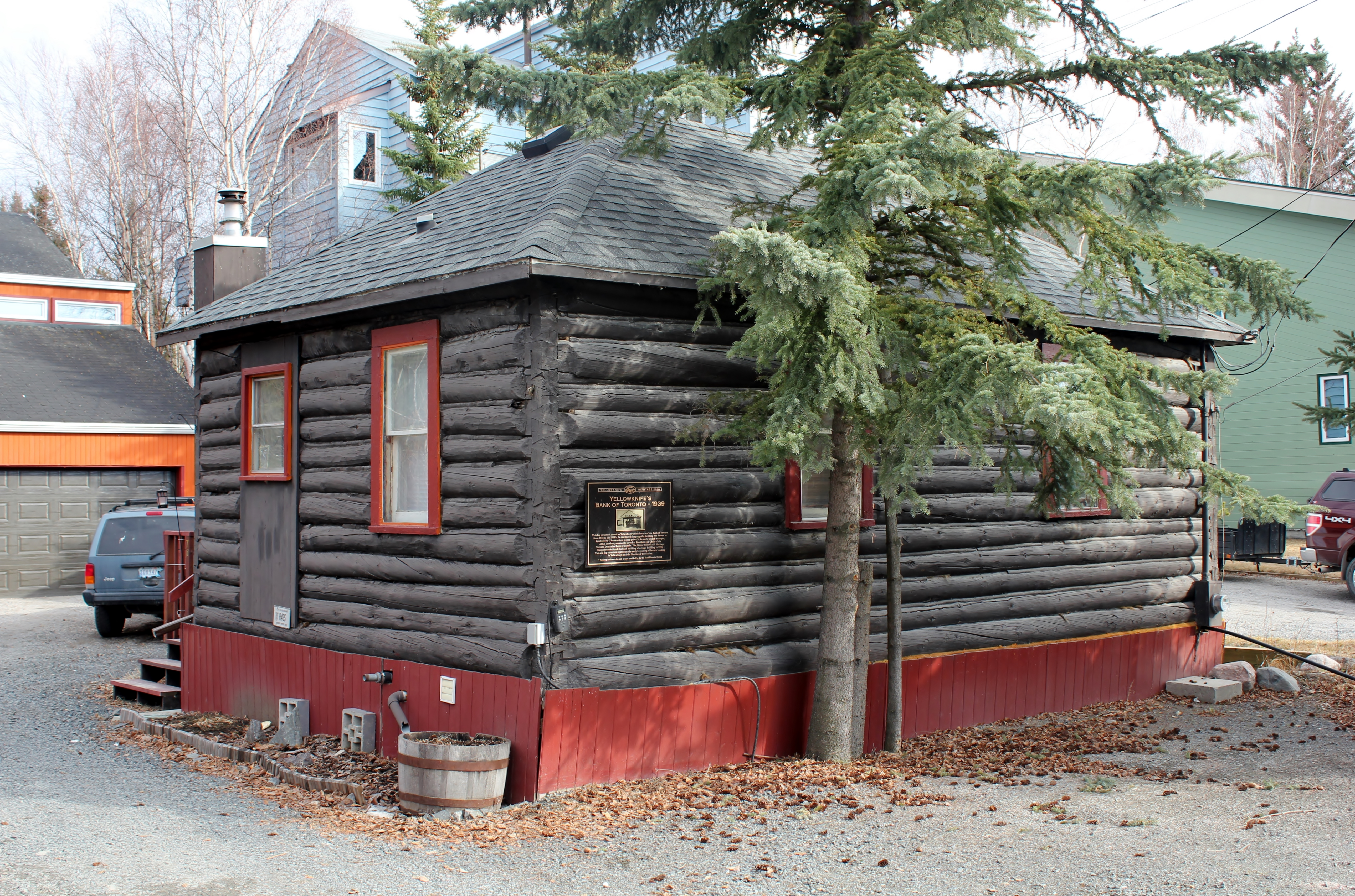 Former Yellowknife office of the Bank of Toronto.